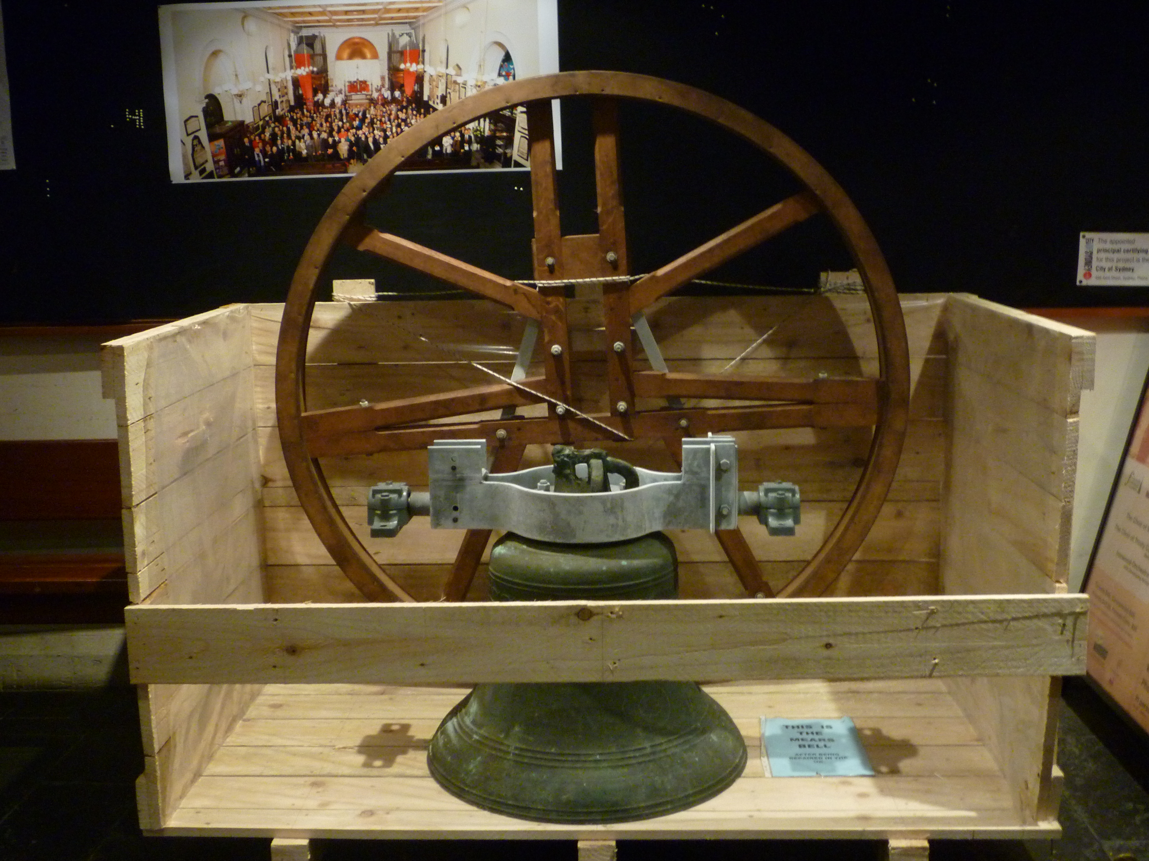 Cast in 1820, repaired in 2011. Photo taken in crypt of Church before bell was rehung after repairs.